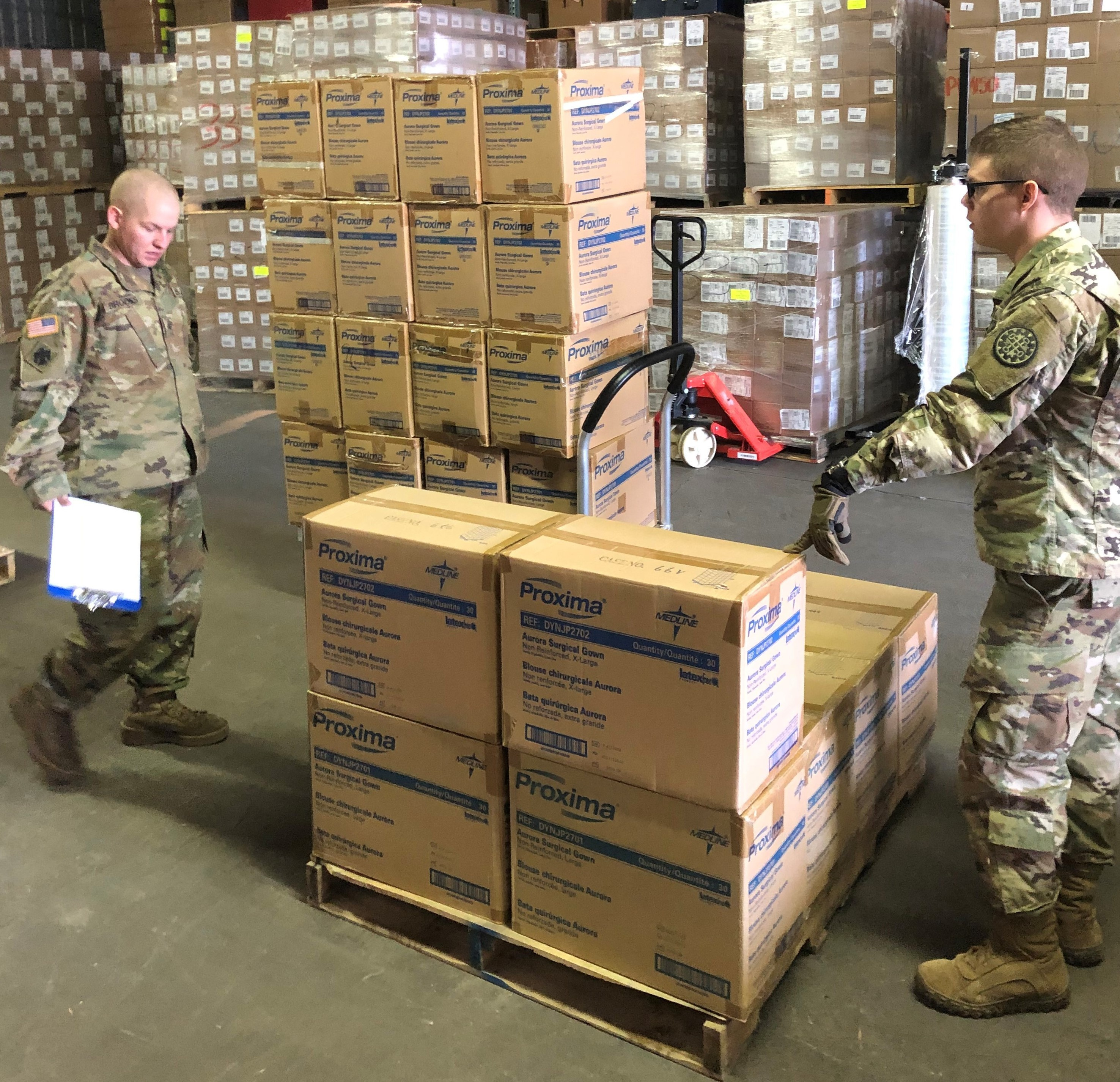 Soldiers from the Michigan National Guard assist Michigan Department of Health and Human Services with assembling and loading critical personal protective gear, such as gloves, gowns, and face shields, March 18, 2020. Once packaged, MDHHS will deliver the supplies to various local public health departments. (U.S. National Guard photo by Sgt. James Bennett)